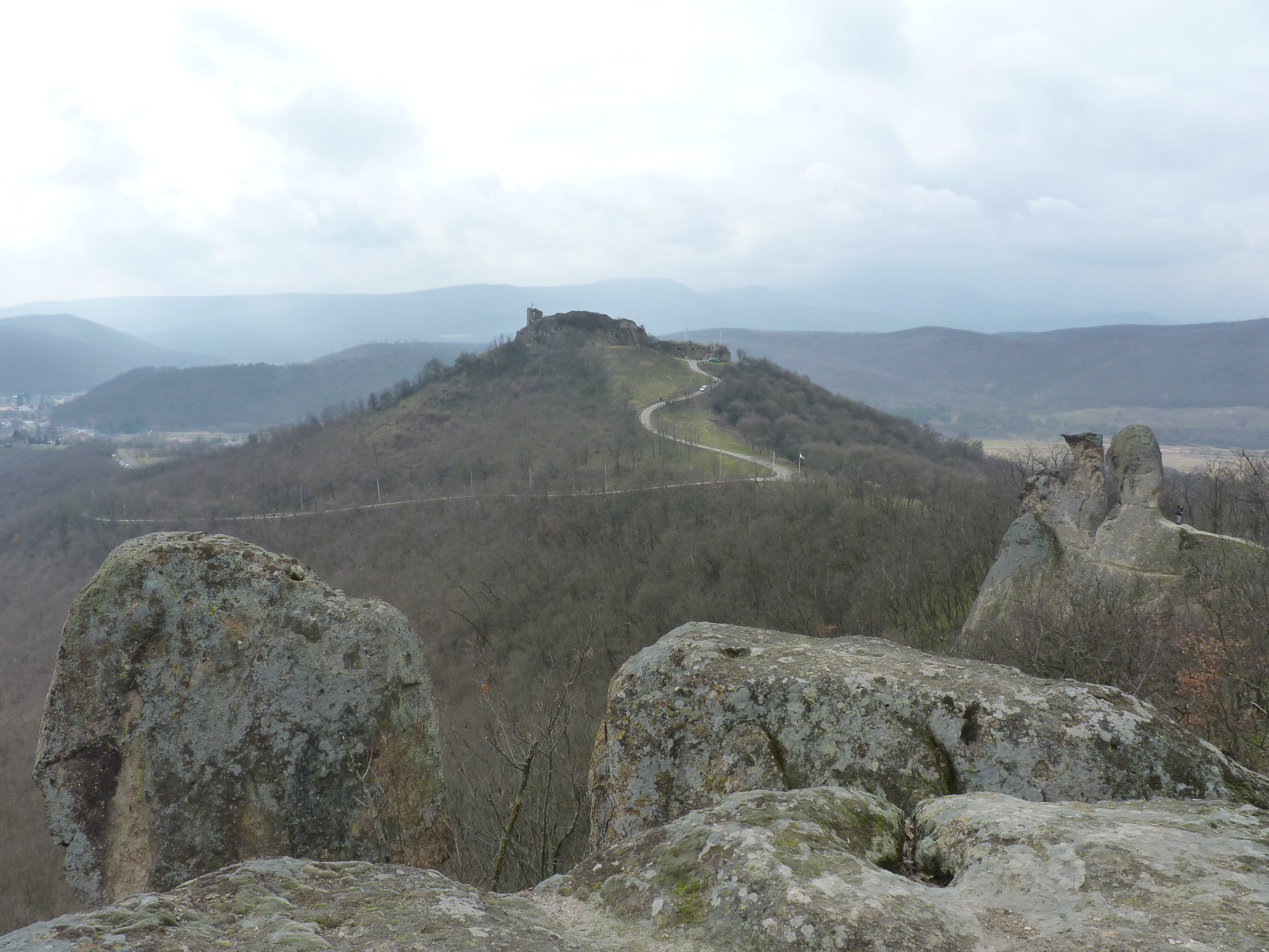 View of Castle of Sirok from Törökasztal